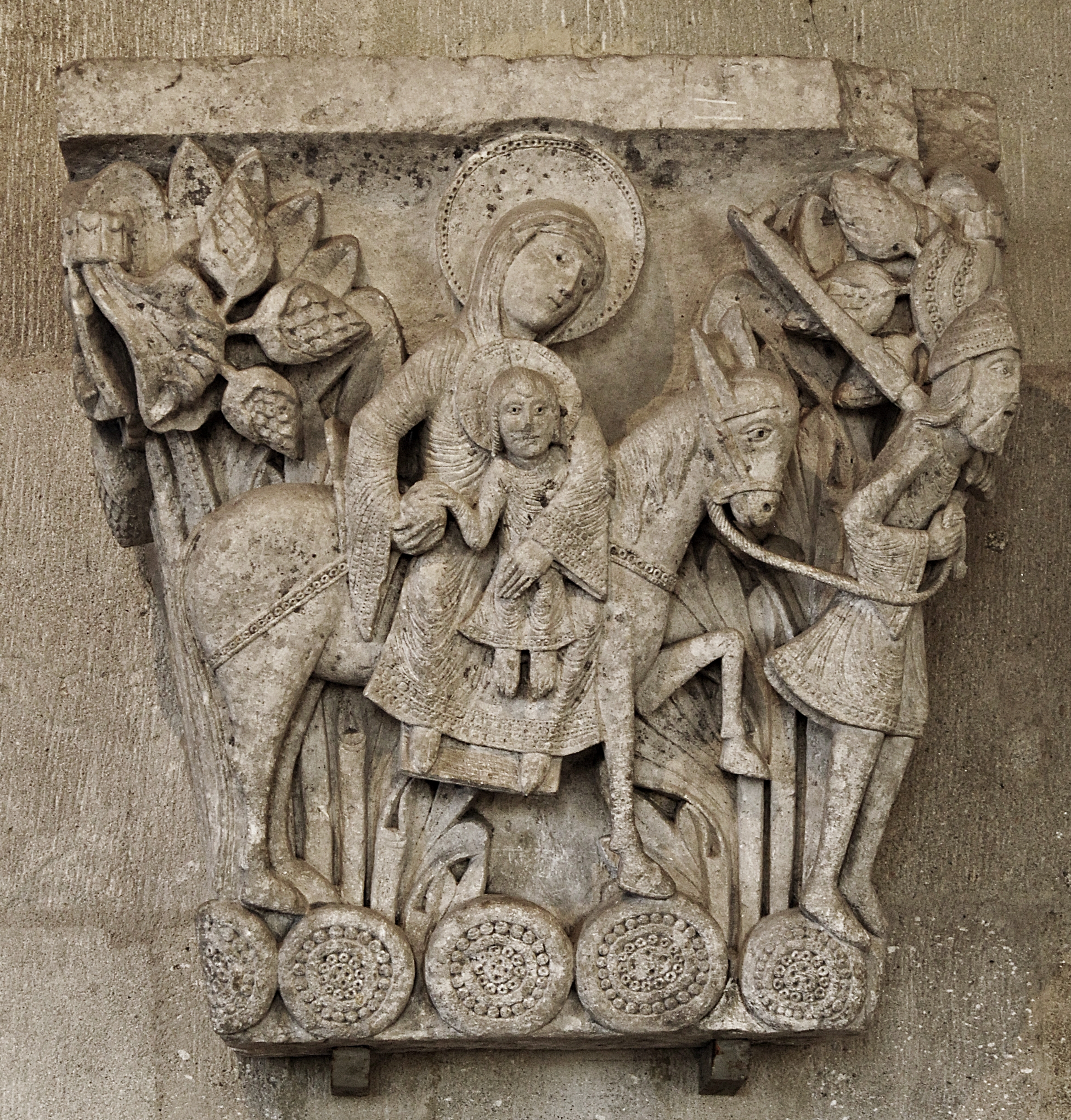 Flight into Egypt. Capital from Autun cathedral. Sculptor: Gislebertus